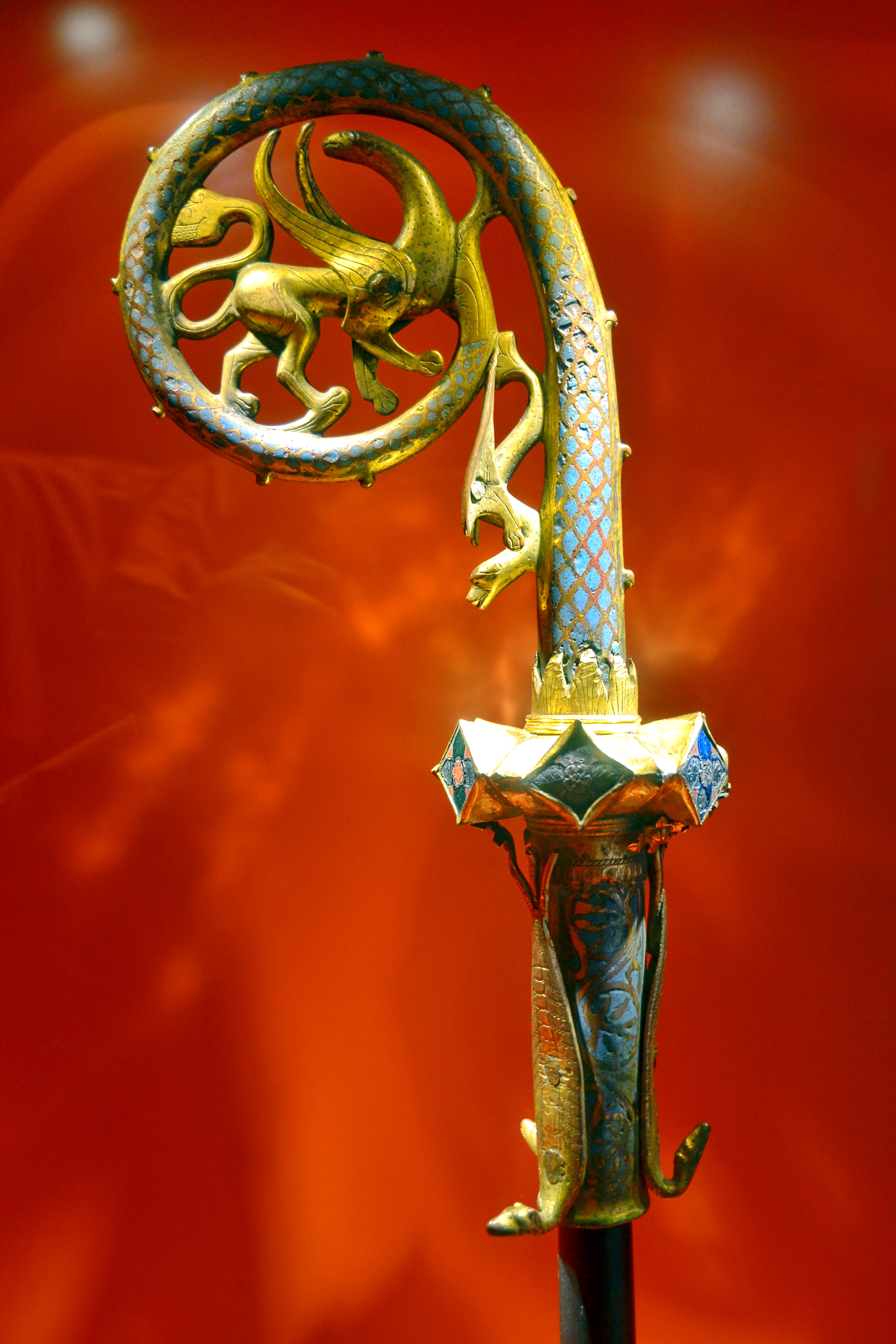 Collection of the Stadtmuseum in Rapperswil : Mitre of the last abbot of the former Rüti Abbey, church treasury of Stadtpfarrkirche St. Johann. Krümme des Abstabes, um 1230 aus vergoldetem Kuper und emailliertem Grubenschmelz, in Limoges hergestellt. Schuppenartiges Rautenmuster mit hellblaumen, mittlerweile schadhaftem Grubenschmelz. Die Spirale endet in einem geflügelten Greif mit ggwundenem Schweif, ein Drache mit Flügel verbindet den Anlauf mit der Windung. Der ursprünglich vermutlich runde romanische Knauf scheint im 15. Jahrhundert gotisch überarbeitet worden sein. Am Griff sind drei Schlangenkörper mit gespaltenen Schwänzen zu erkennen.